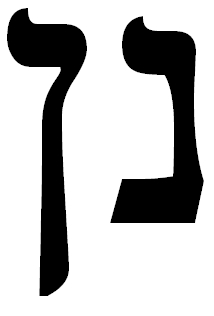 Sofit nun and nun hebrew letters